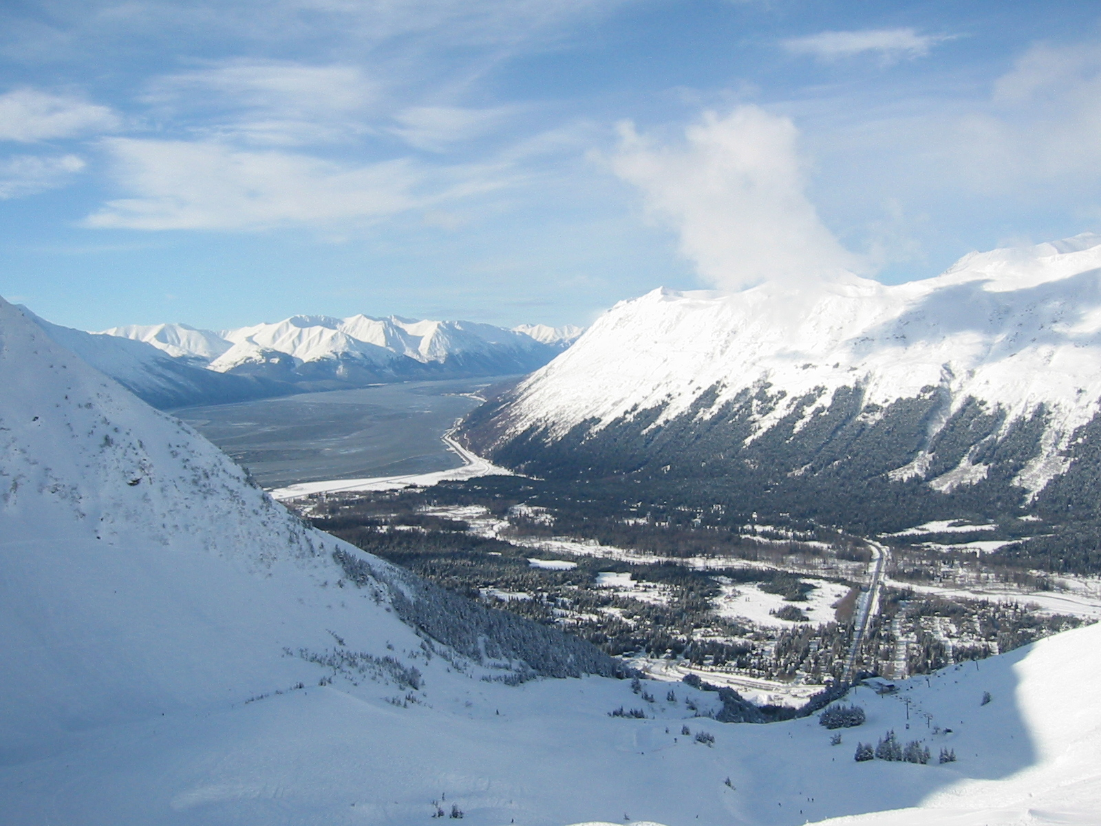 View of Girdwood, Alaska from Mt. Alyeska.